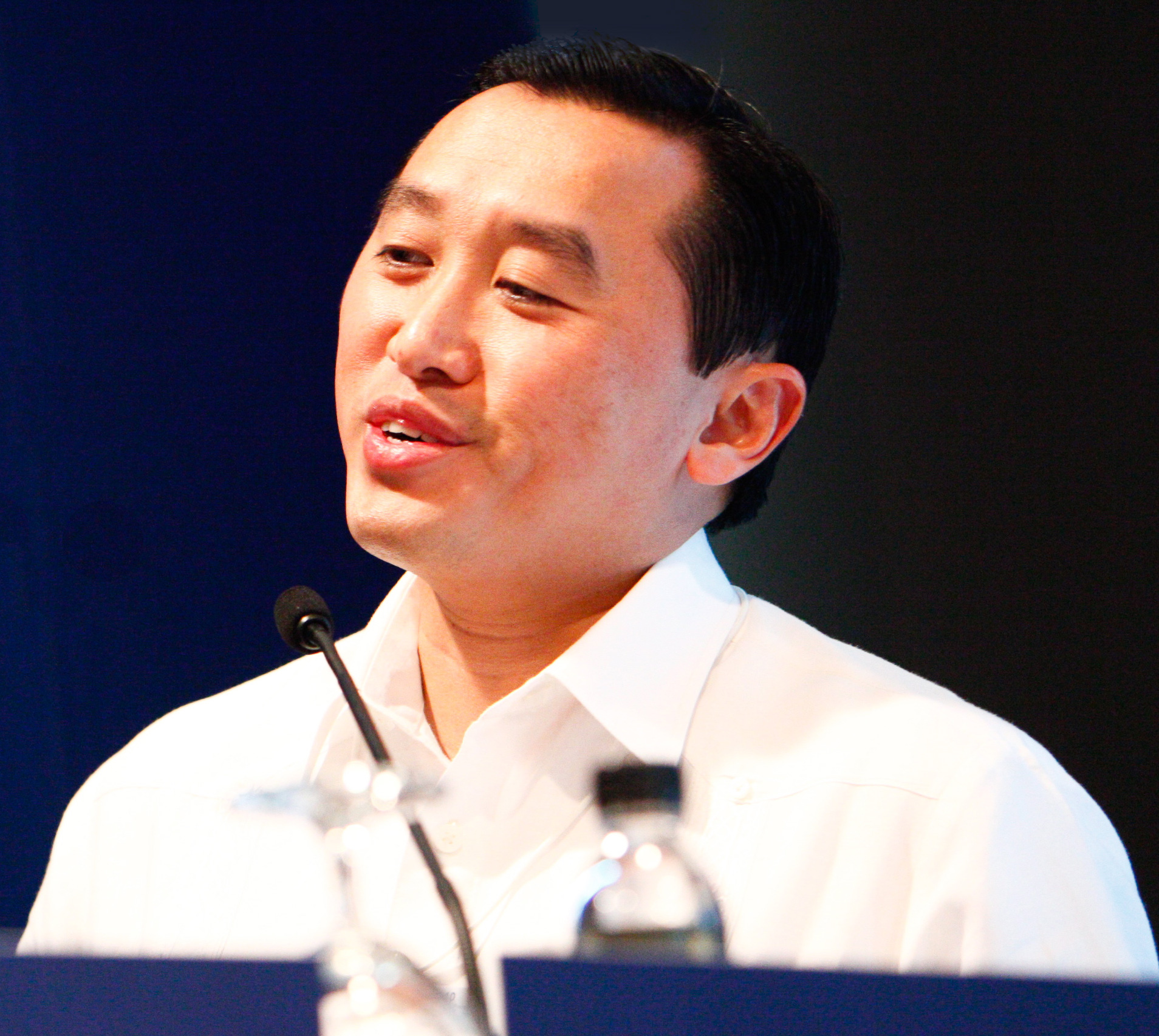 HO CHI MINH CITY/VIETNAM, 6JUN10 - Arthur Yap, Senior Technical Adviser, Department of Agriculture, Philippines captured during the World Economic Forum on East Asia in Ho Chi Minch City, Vietnam, June 6, 2010. Photo made by Ms. Sikarin Thanachaiary from World Economic Forum